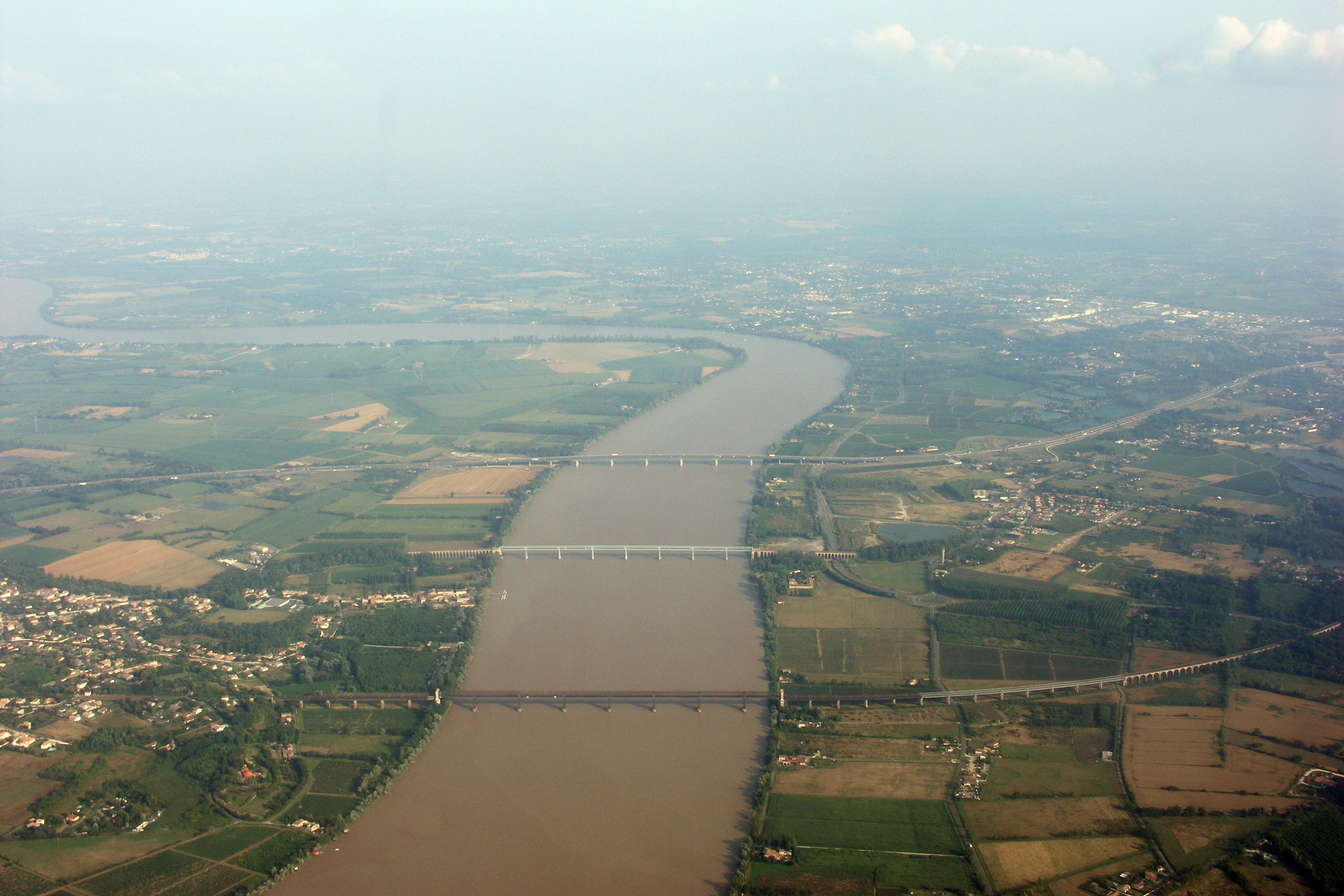 MSN 600 A319-113 AIR FRANCE FLIGHT ORY-BOD EX AIR INTER